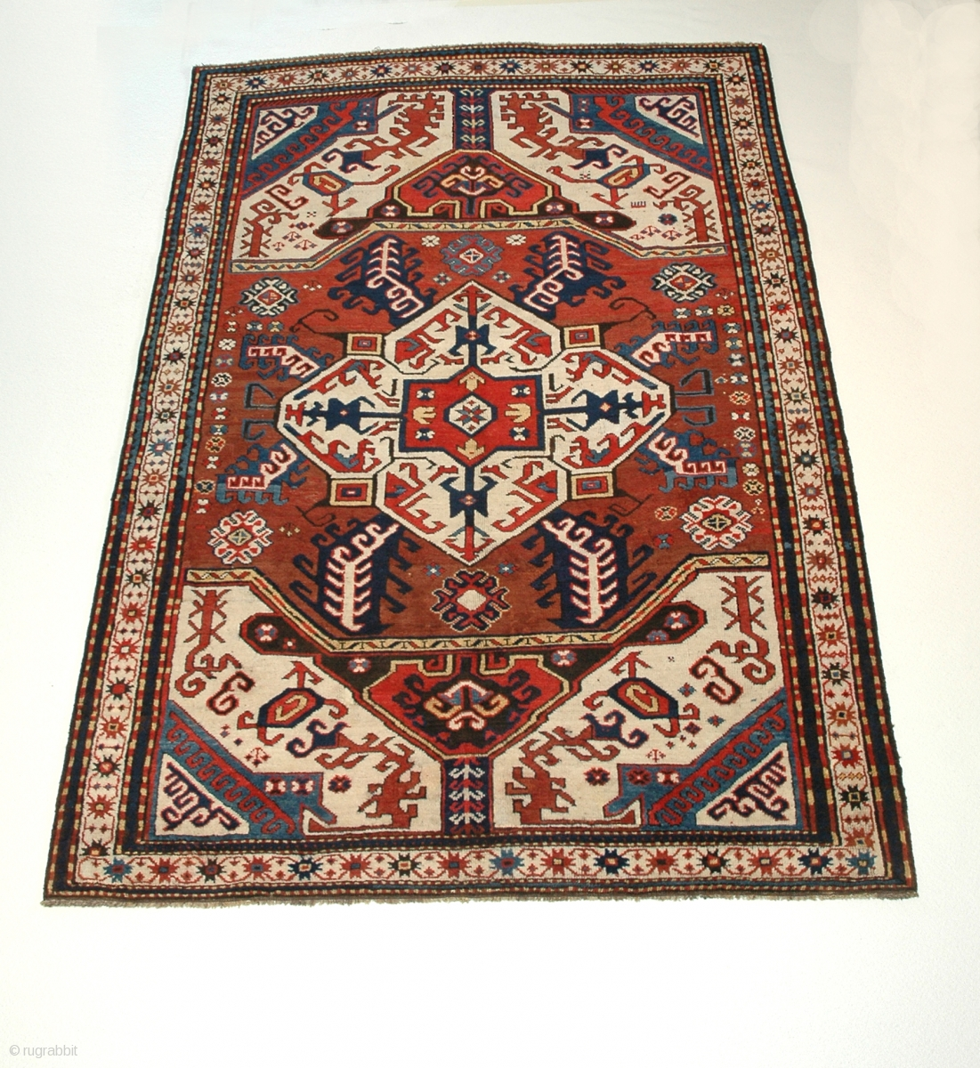 "Kasym ushagy carpets" - Azerbaijanian fleecy carpet, Karabakh school, Jabrayi (Cəbrayıl) group .The name of this carpet is associated with the name "Kasym ushagy", the residents of the villages Shamkend, Erikli, Kurdhaji, Chorman and Shelva, located to the north of Lachin, the present-day district center, of Azerbaijan.